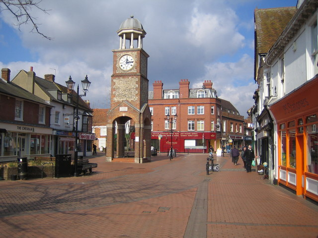 Chesham: Clock Tower. Built in 1992 to accommodate the clock from the old Town Hall, which was demolished in 1965 as part of a road-widening scheme, the Clock Tower dominates this part of Chesham's High Street.